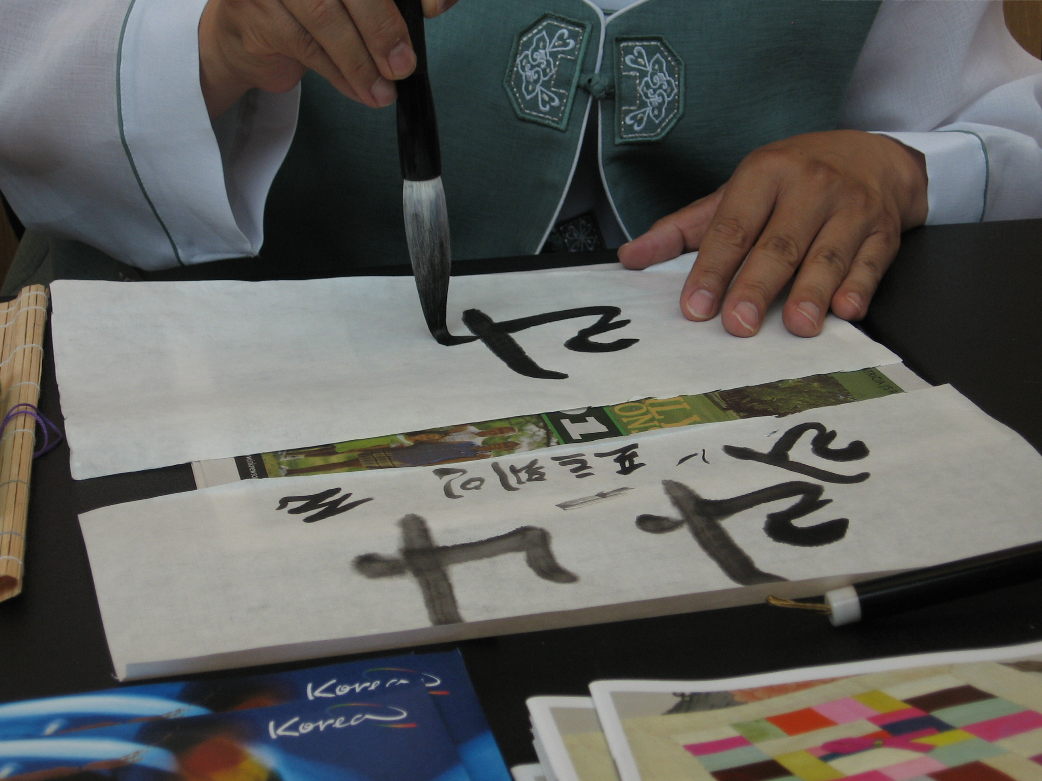 A Korean gentleman was writing people's names in Korean characters